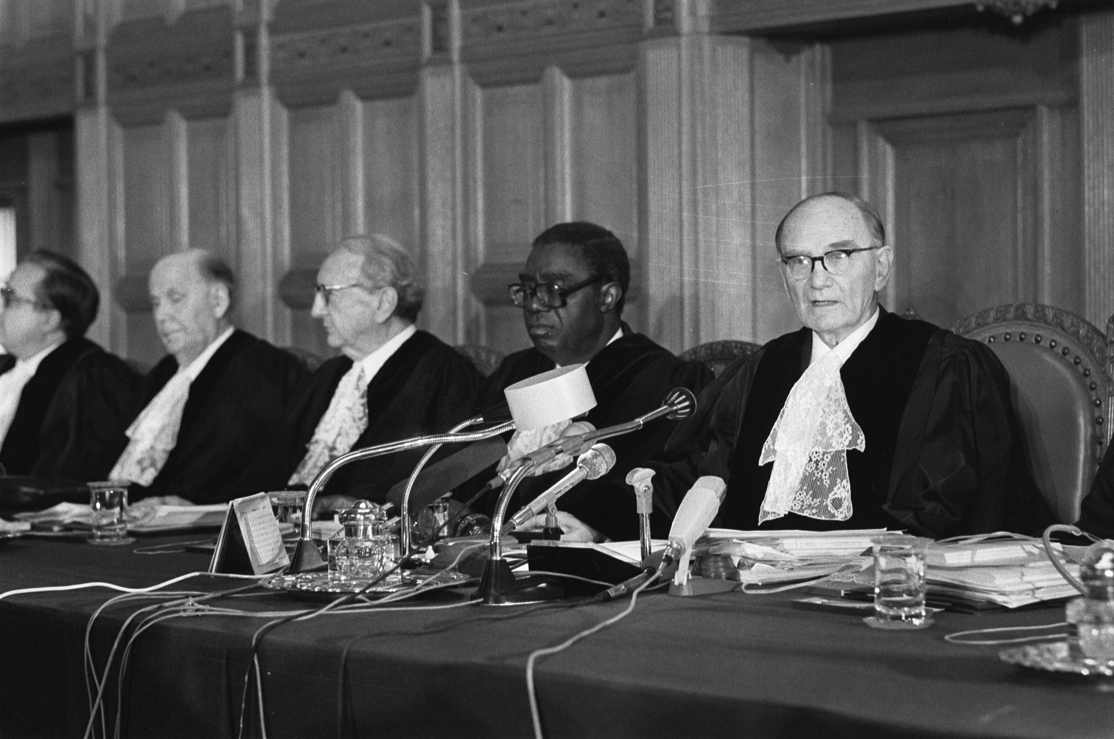 The International Court of Justice in The Hague (the Netherlands), 10 Dec. 1979. From left to right: X, Y, Z, vice-president Taslim Olawale Elias, president Sir Humphrey Waldock